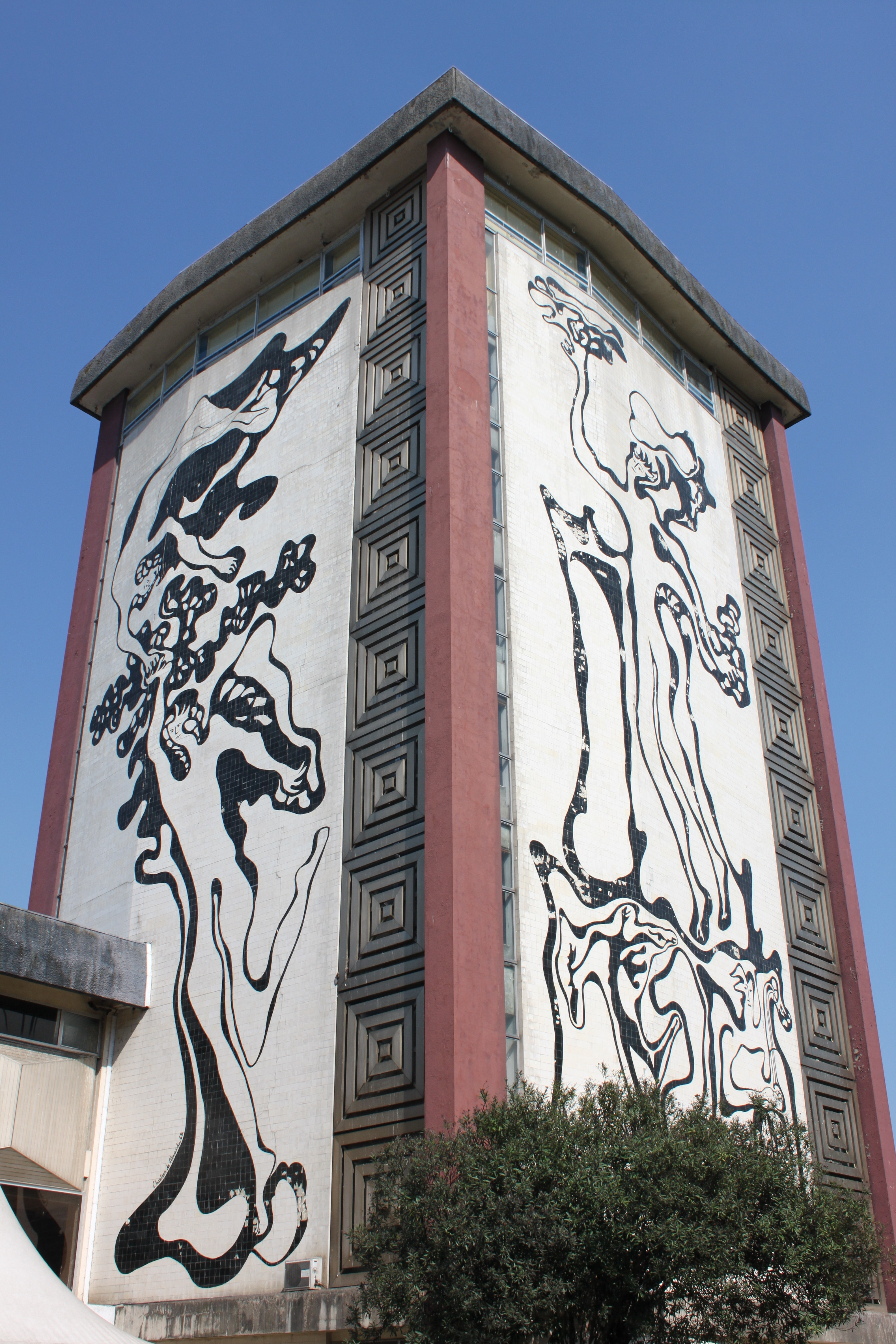 Fundação Arthur Cupertino de Miranda. This file was uploaded for Wiki Loves Monuments in Portugal with the unique identifier 97028544.